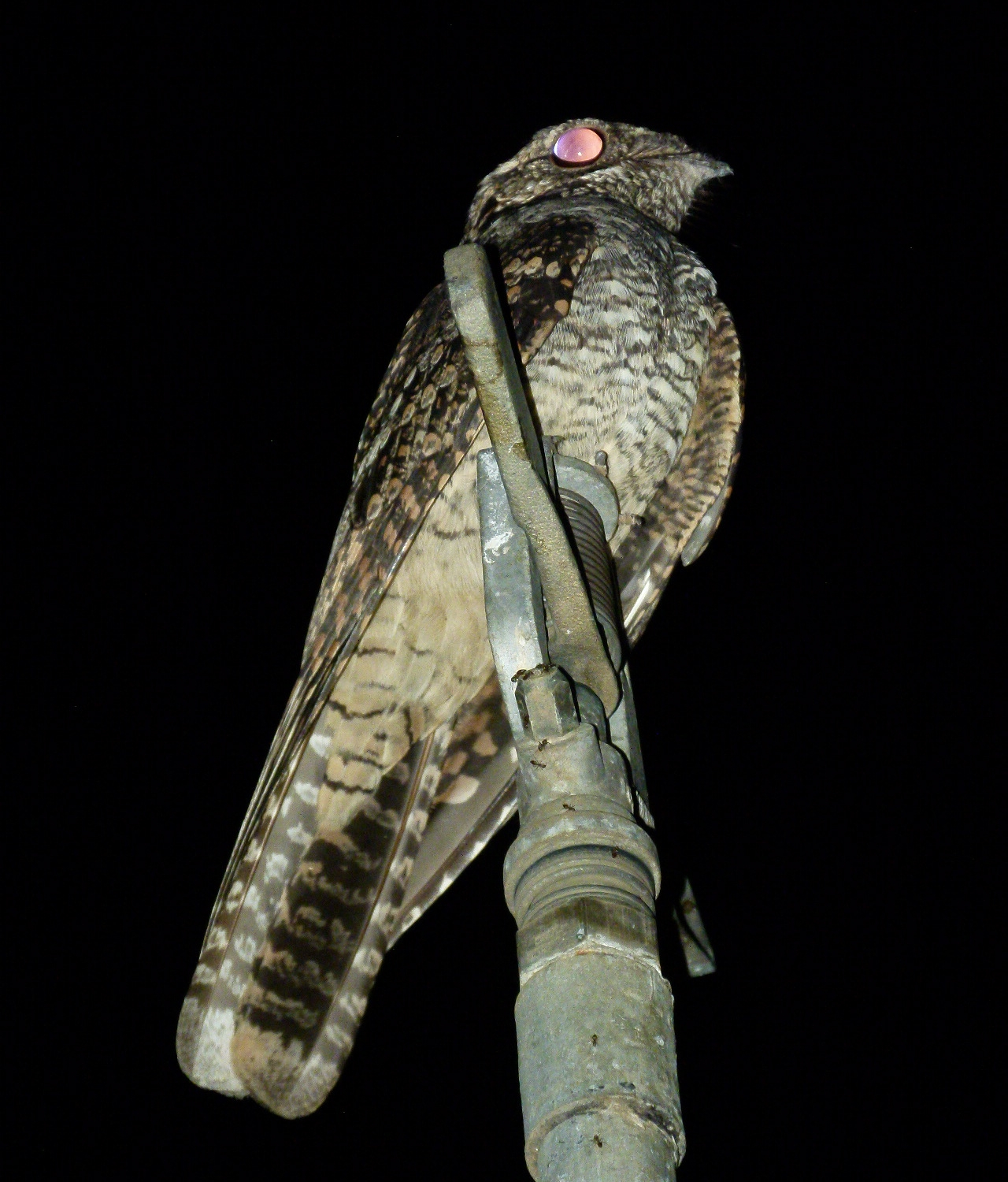 Caprimulgus indicus, (Wynaad, India)